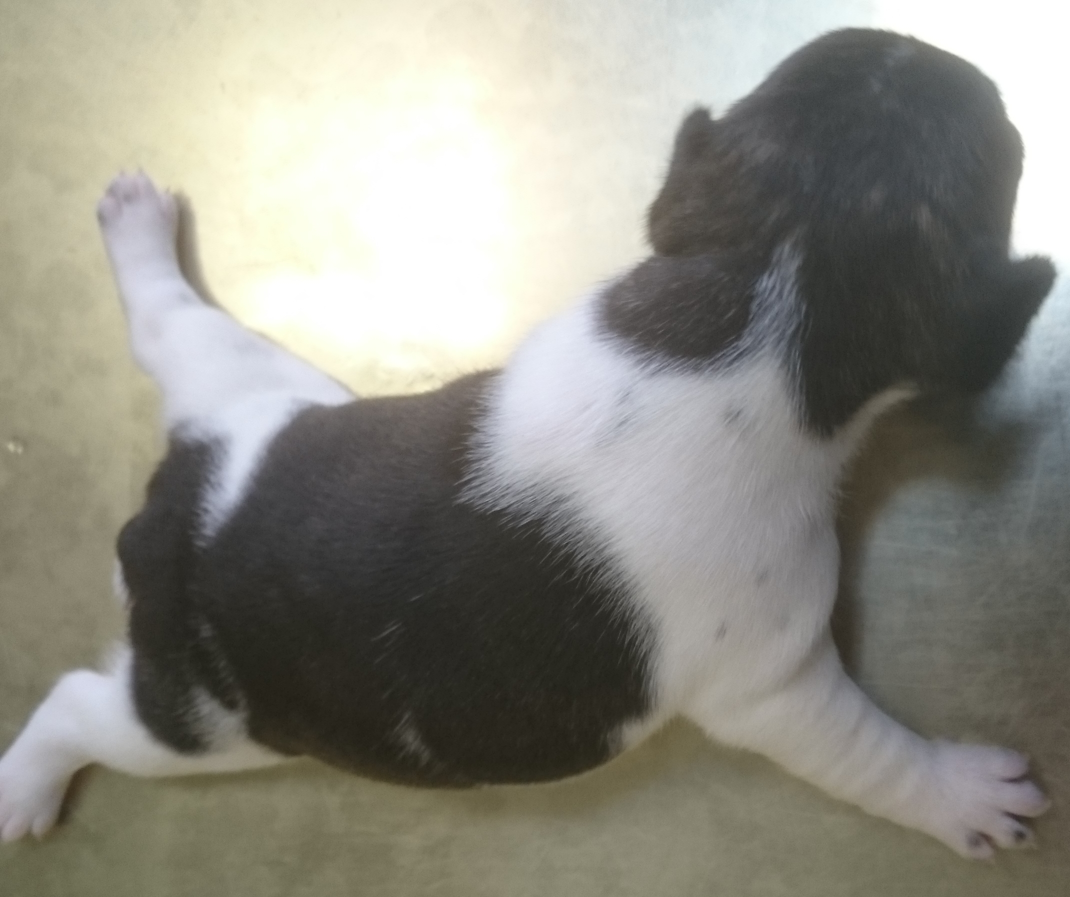 Puppy Swimmer Syndrome in a French Bulldog puppy